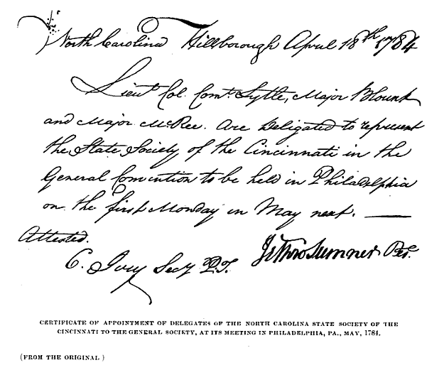 An Appointment of delegates from the North Carolina Society of the Cincinnati to the National Meeting in May, 1784